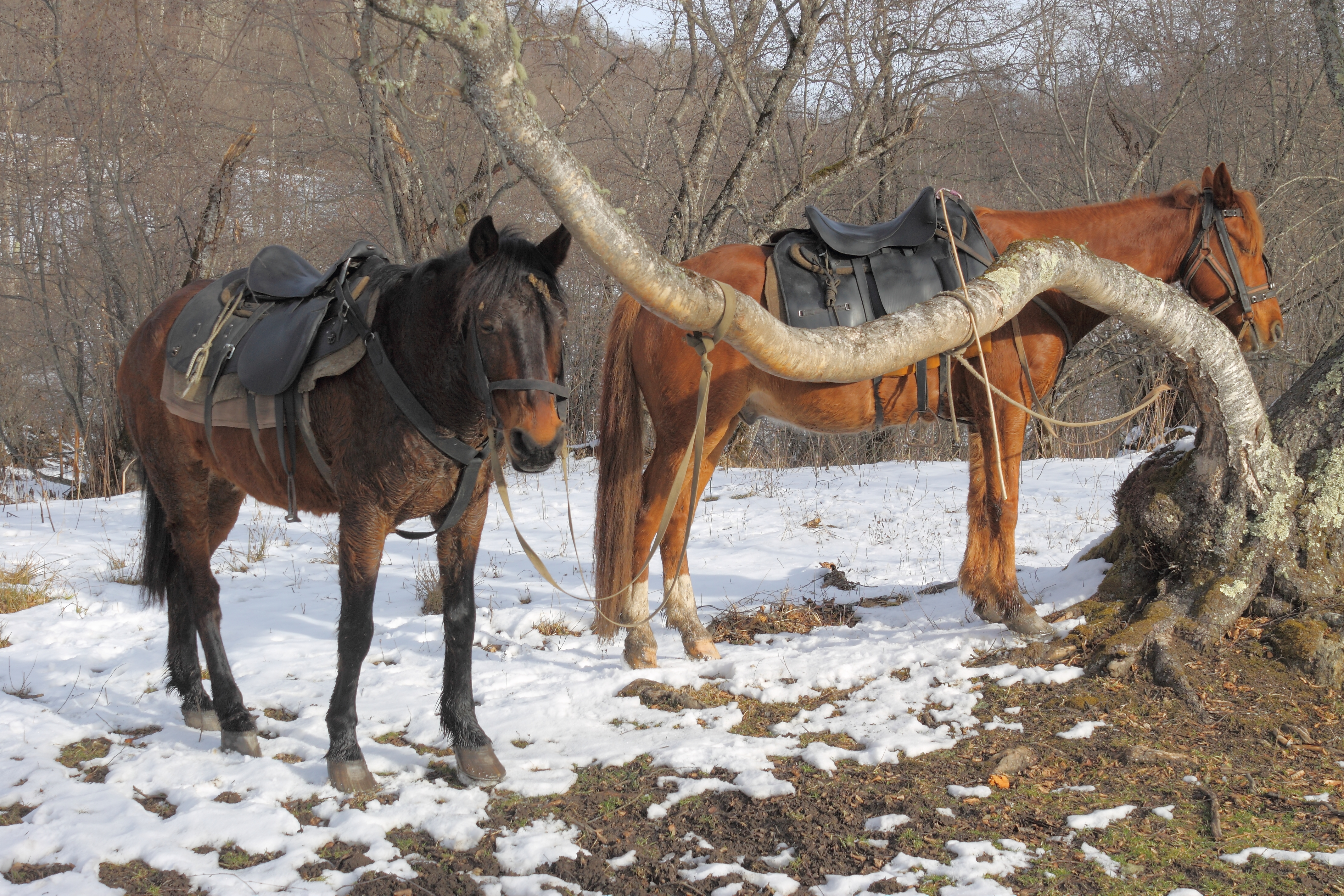 Horses on a leash for a bridle